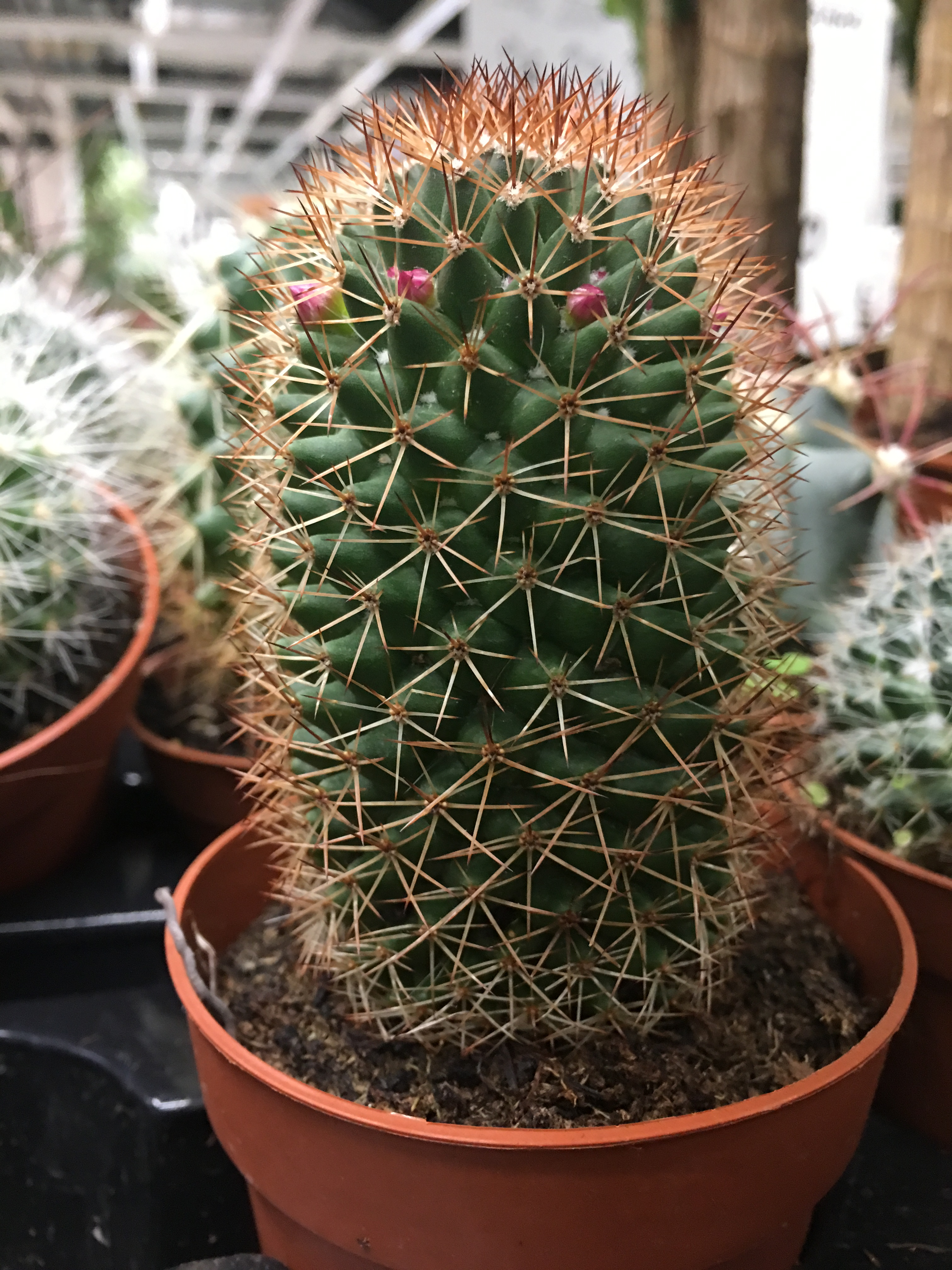 Cactus Garden